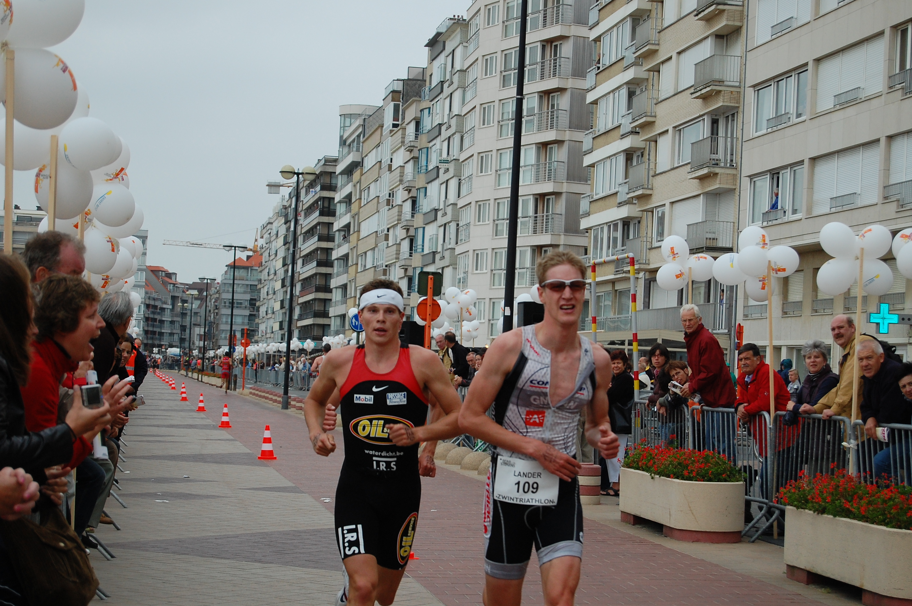 Photo from the Zwintriathlon in Knokke, Belgium.